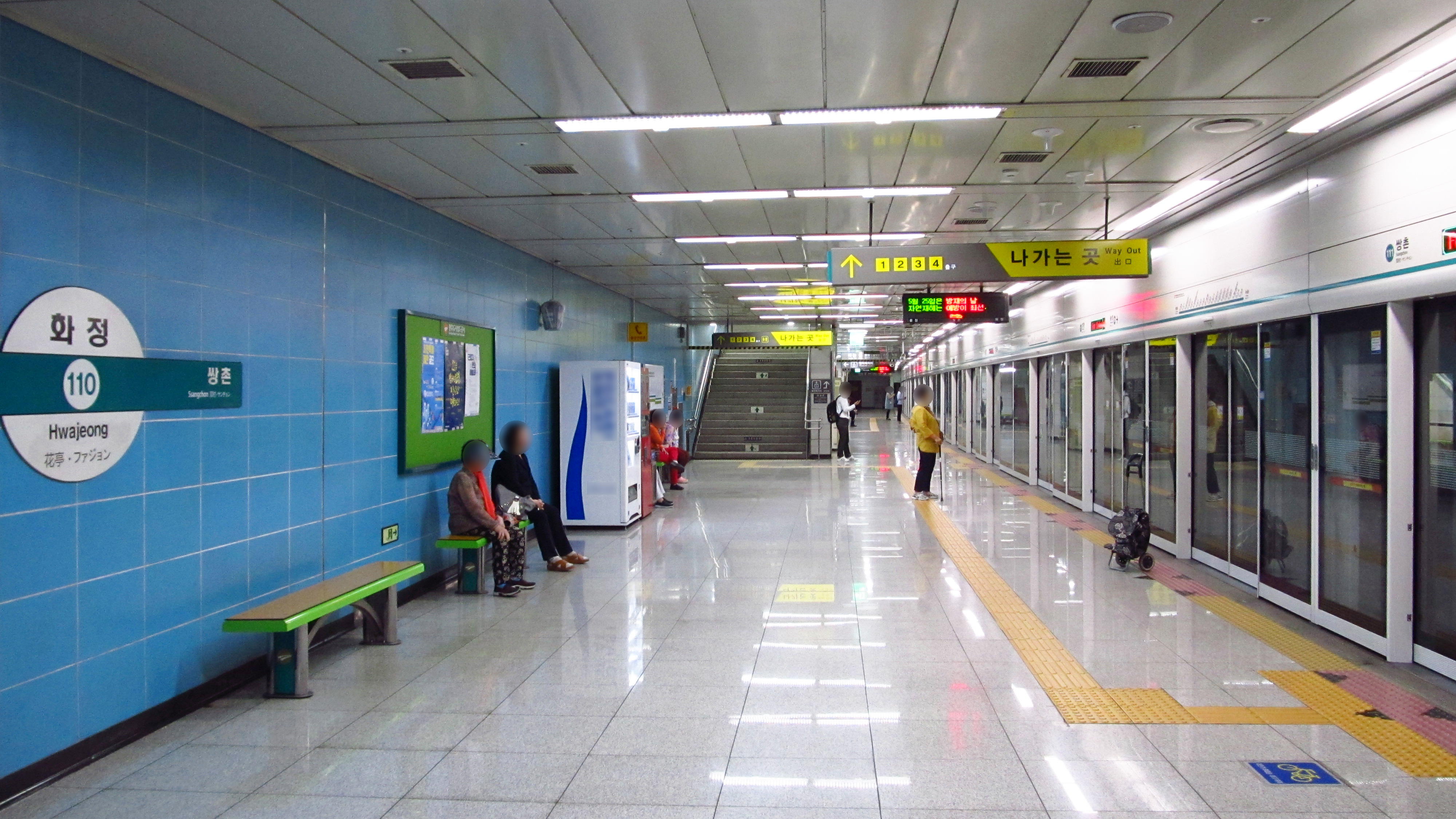 The platform at Hwajeong Station on Gwangju Metro Line 1 in Seo-gu, Gwangju, Republic of Korea(South Korea)